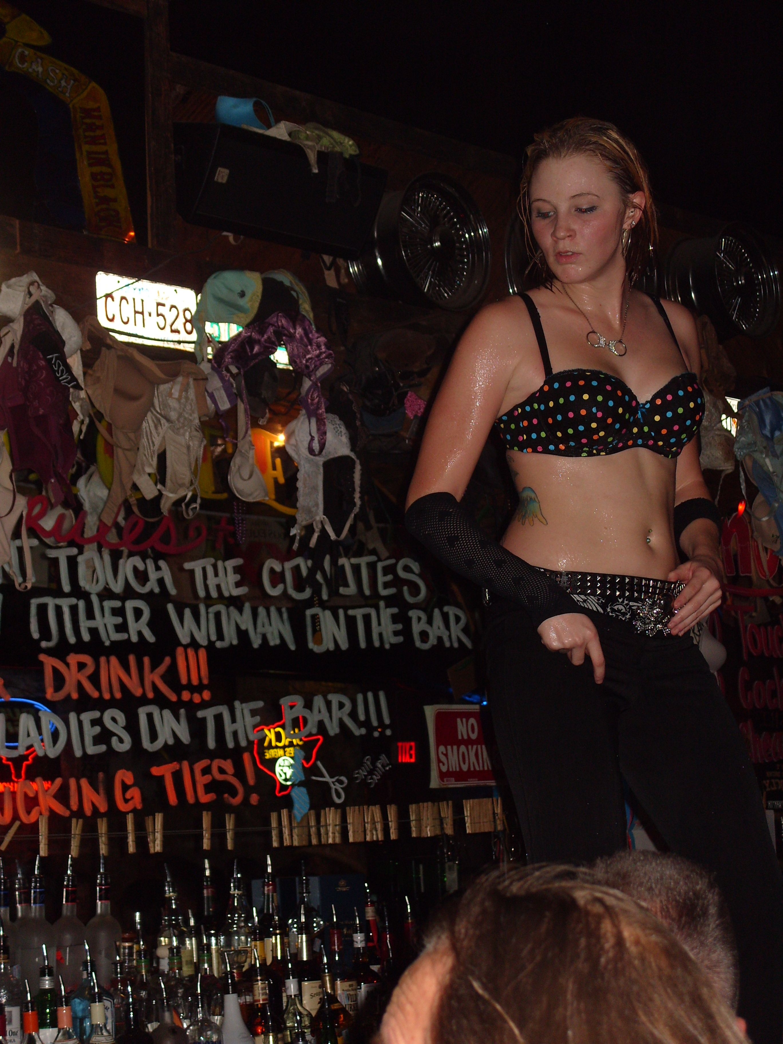 Coyote Ugly bar dancer in Texas